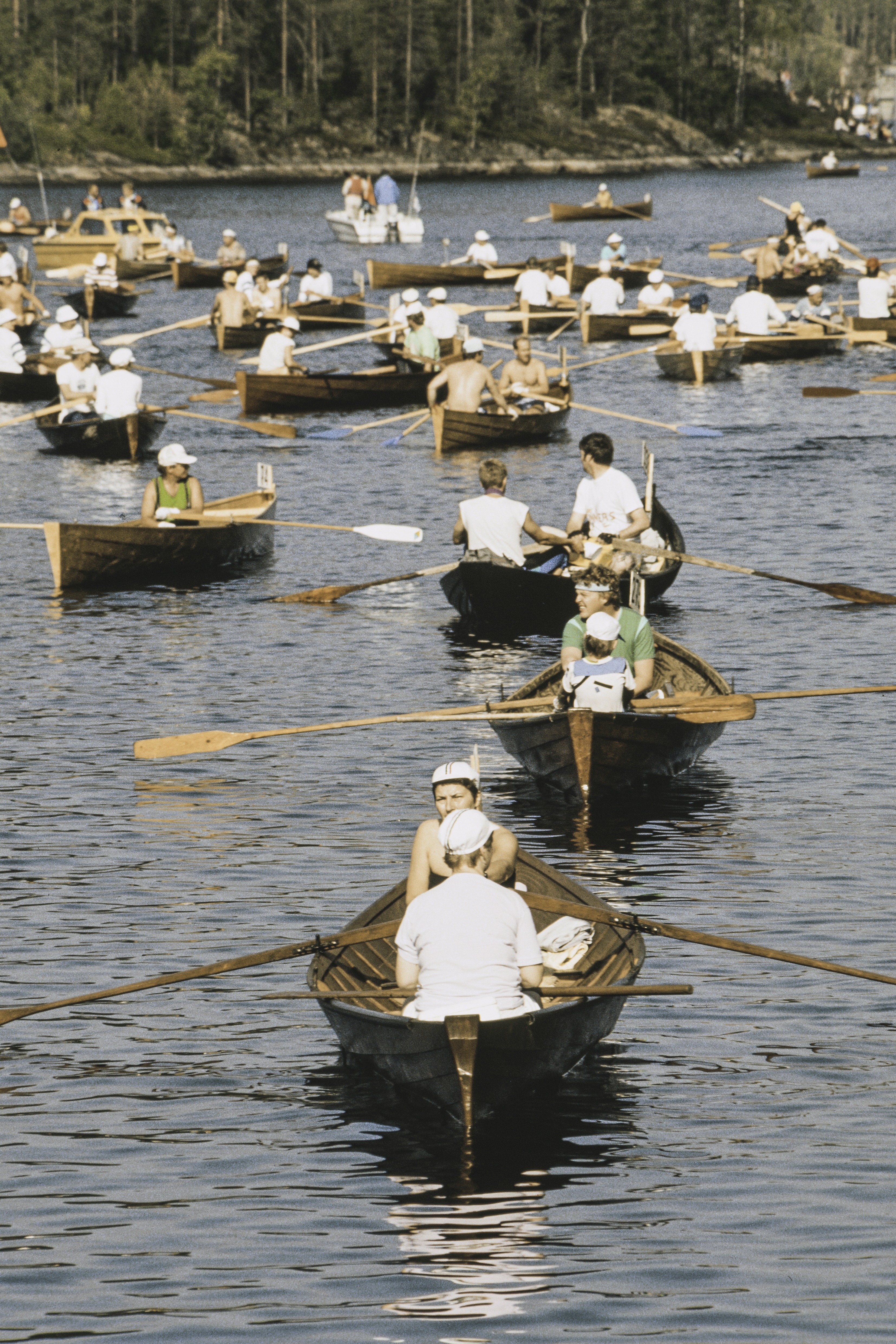 Sulkavan Suursoudut rowing competition in 1991